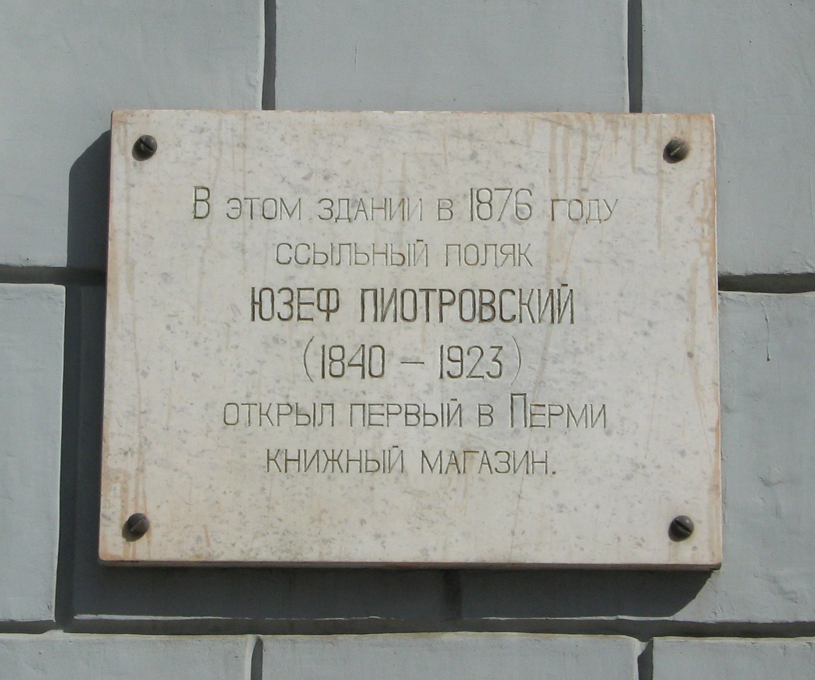 The memorial tablet on the building in Perm where in 1876 was Josef Petrowski bookstore